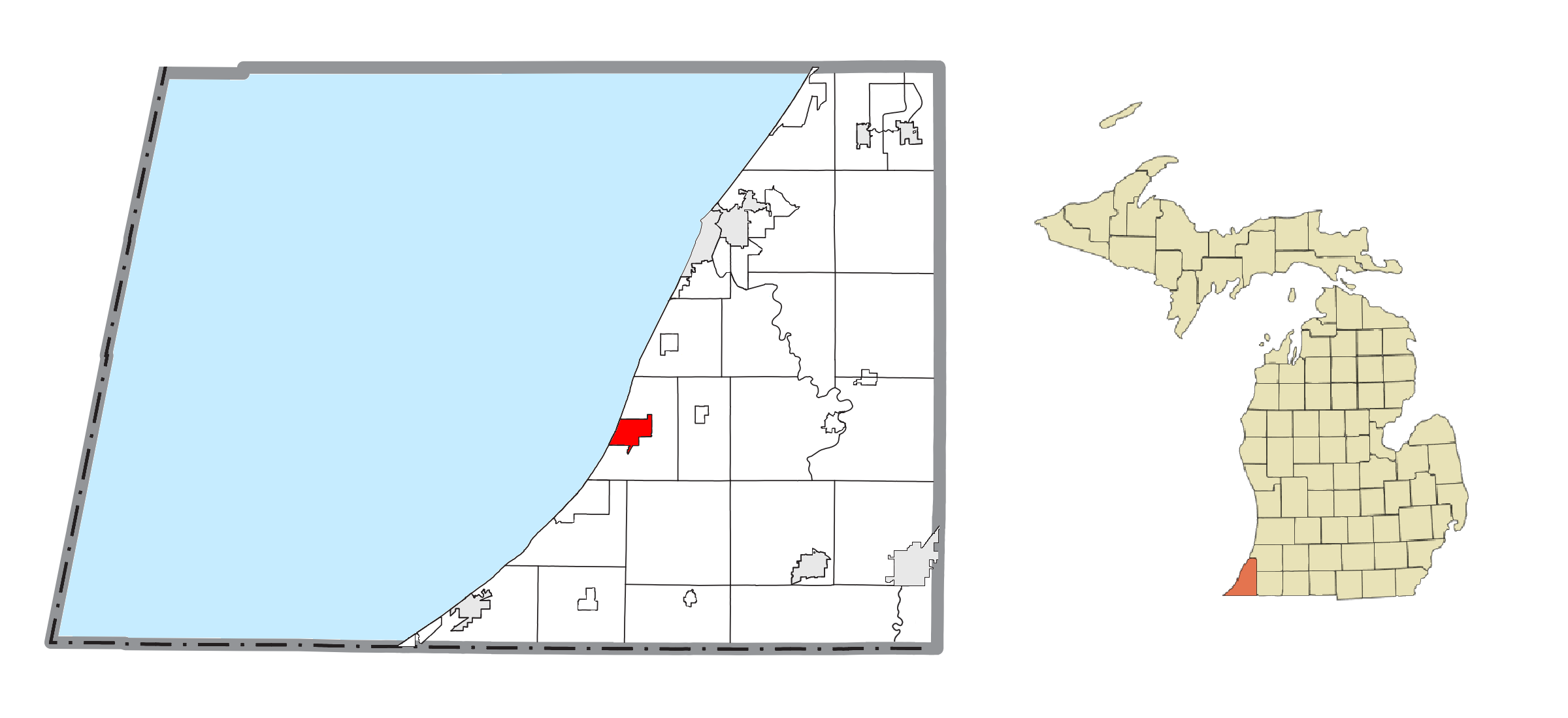 Bridgman, MI